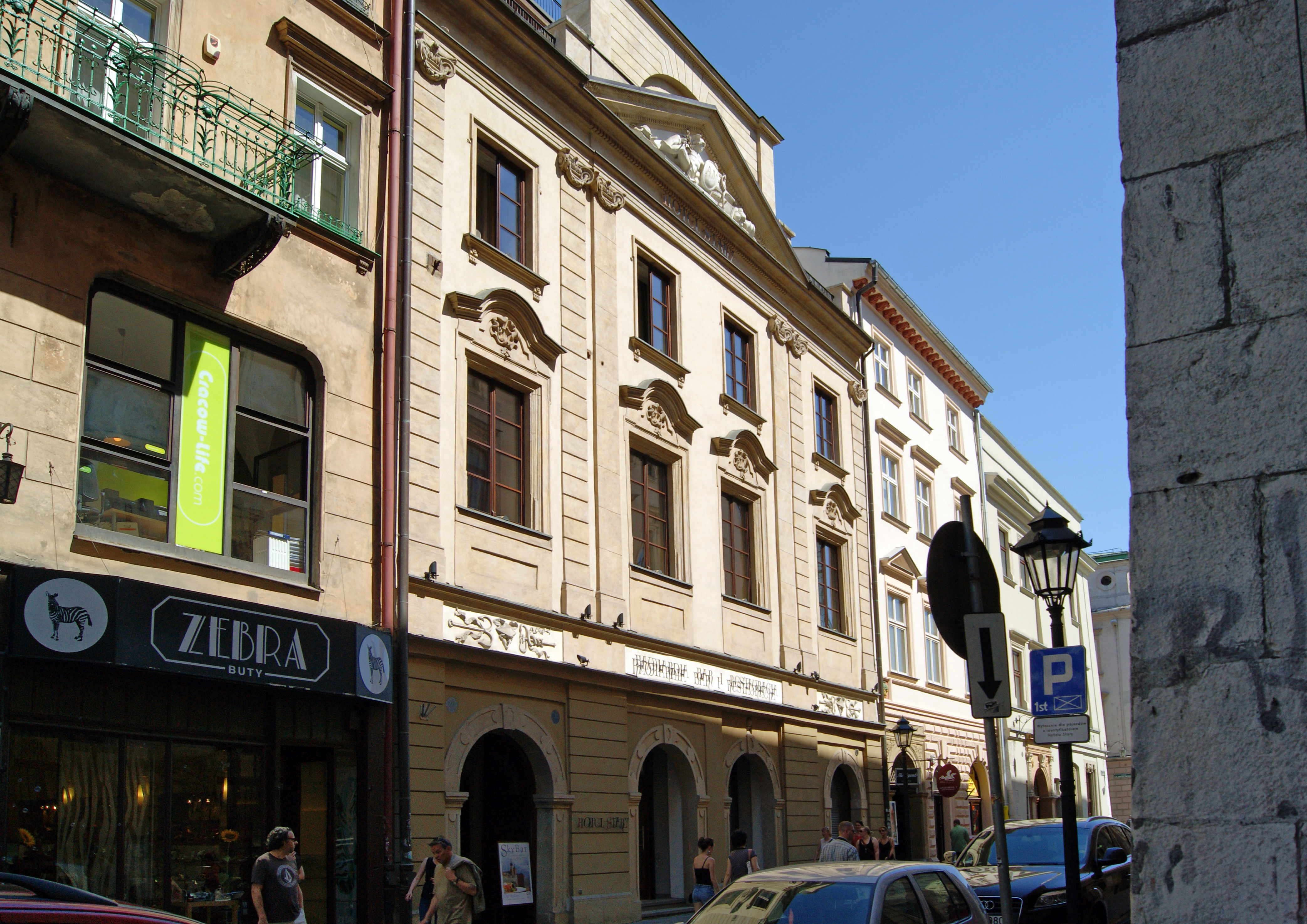 Na Schodkach tenement (Stary Hotel), 5 Szczepanska street, Old Town, Krakow, Poland